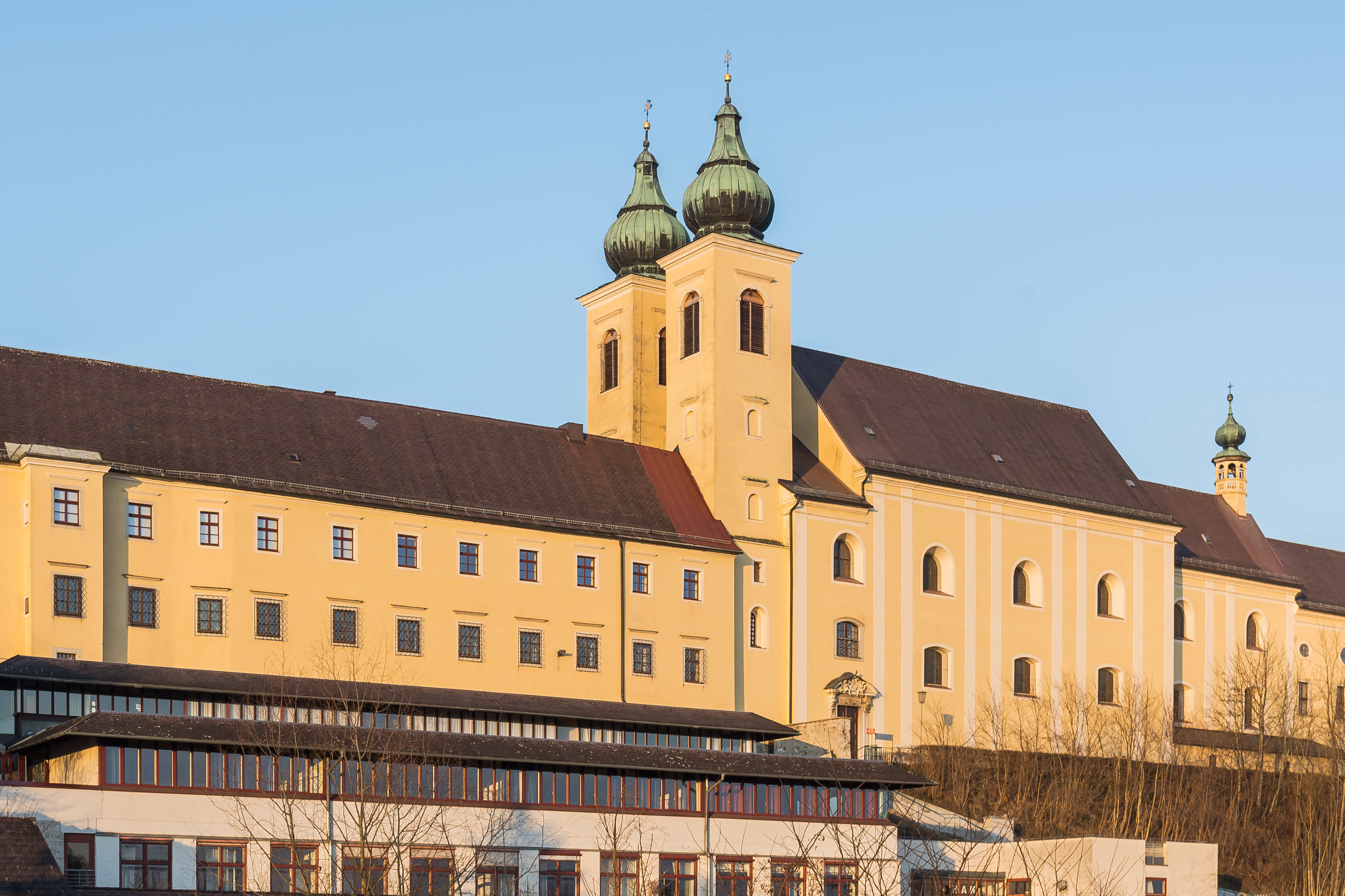 South face of Lambach abbey in the light of the setting sun